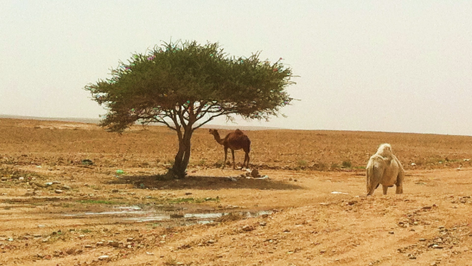 Tree and Two Camels in Saudi desert